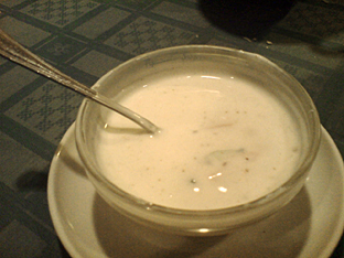 Raita Yoghurt Sauce